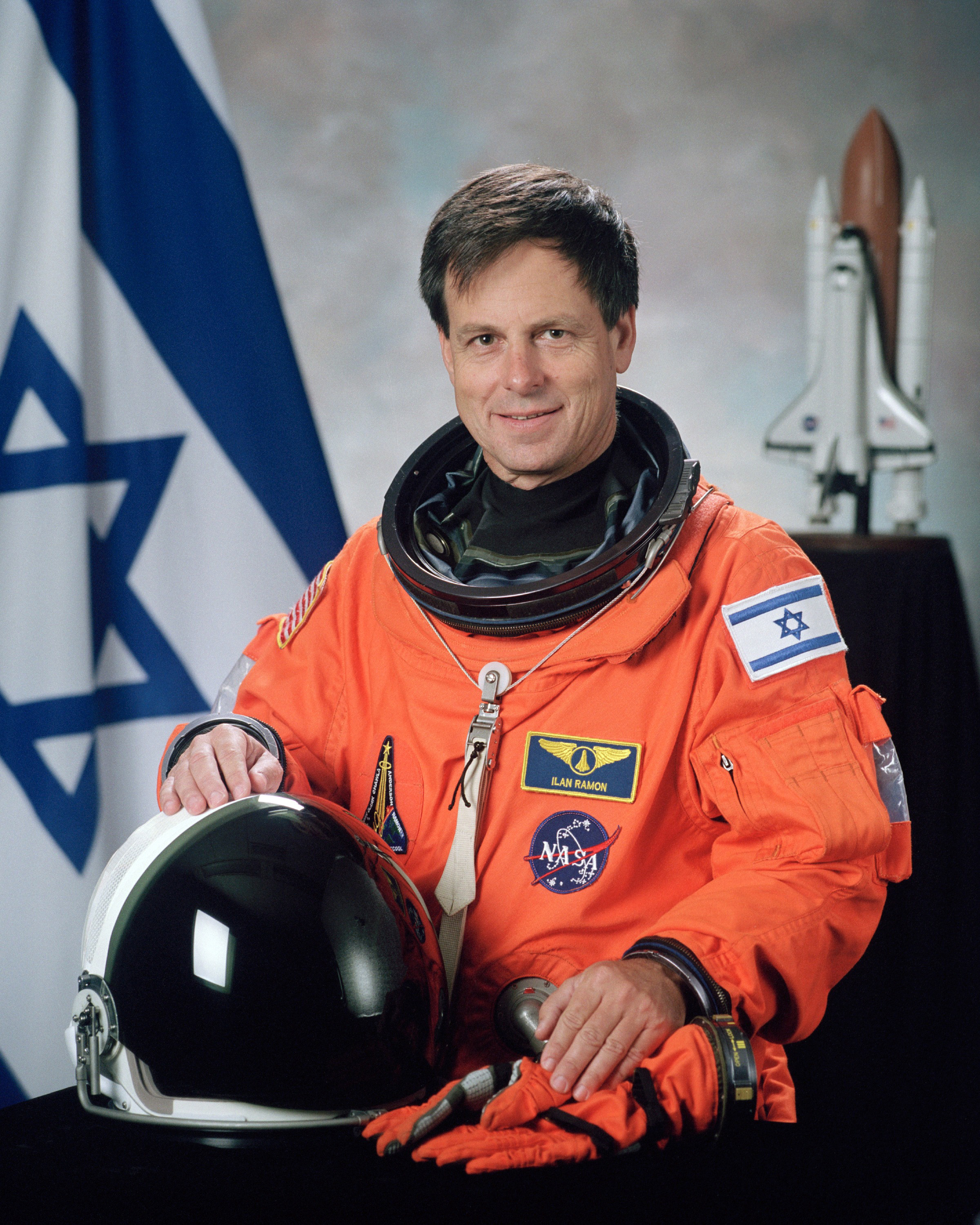 Ilan Ramon, astronaut killed during the failed re-entry of the Space Shuttle Columbia.